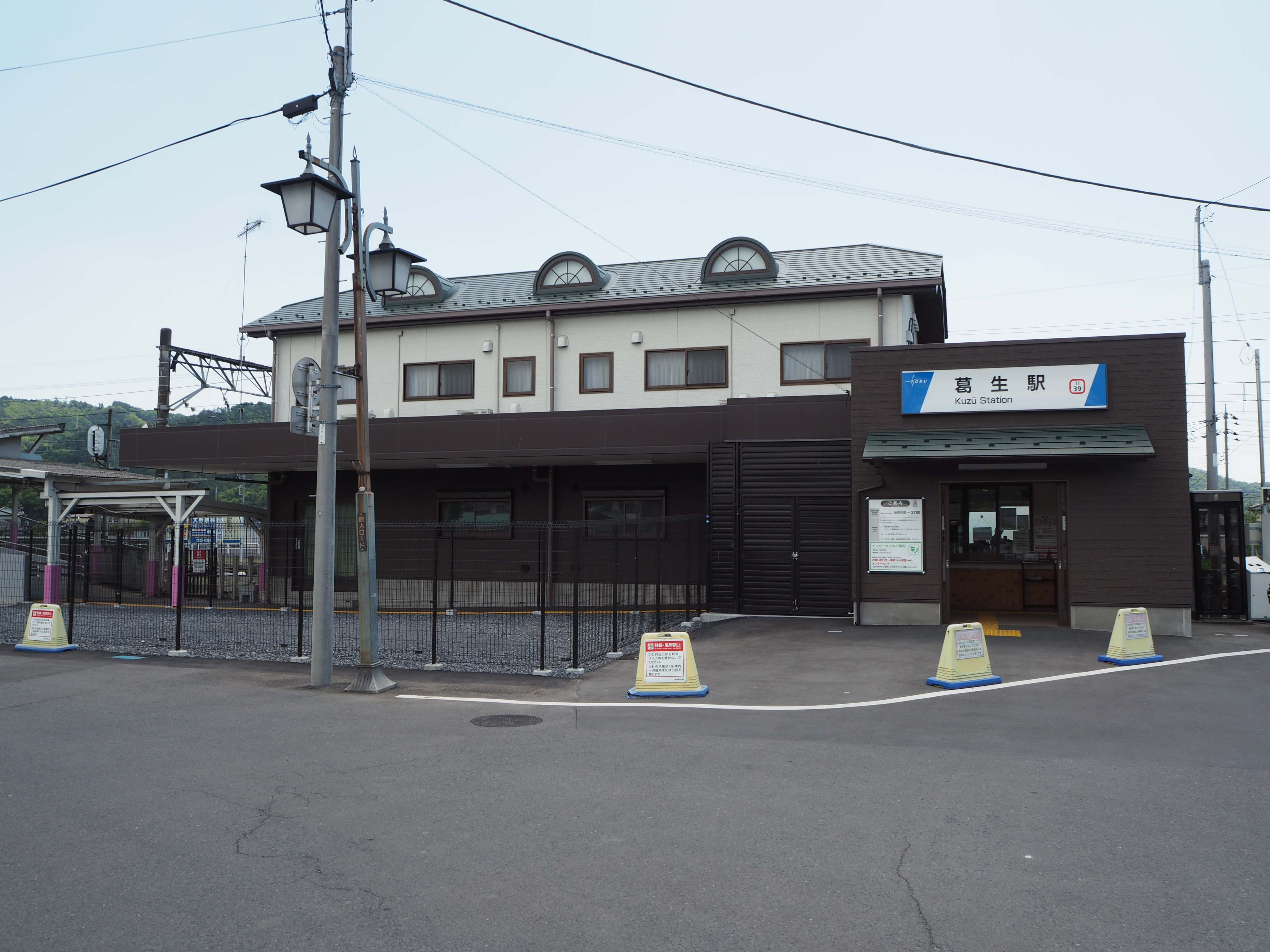 Kuzuu Station